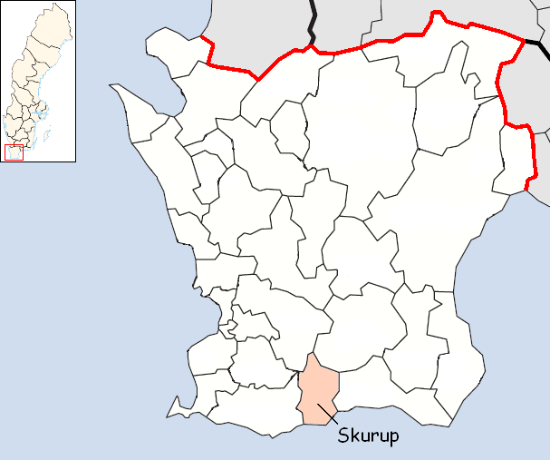 Skurup Municipality in Scania, Sweden Designed by me. Mere outlines are a PD source from